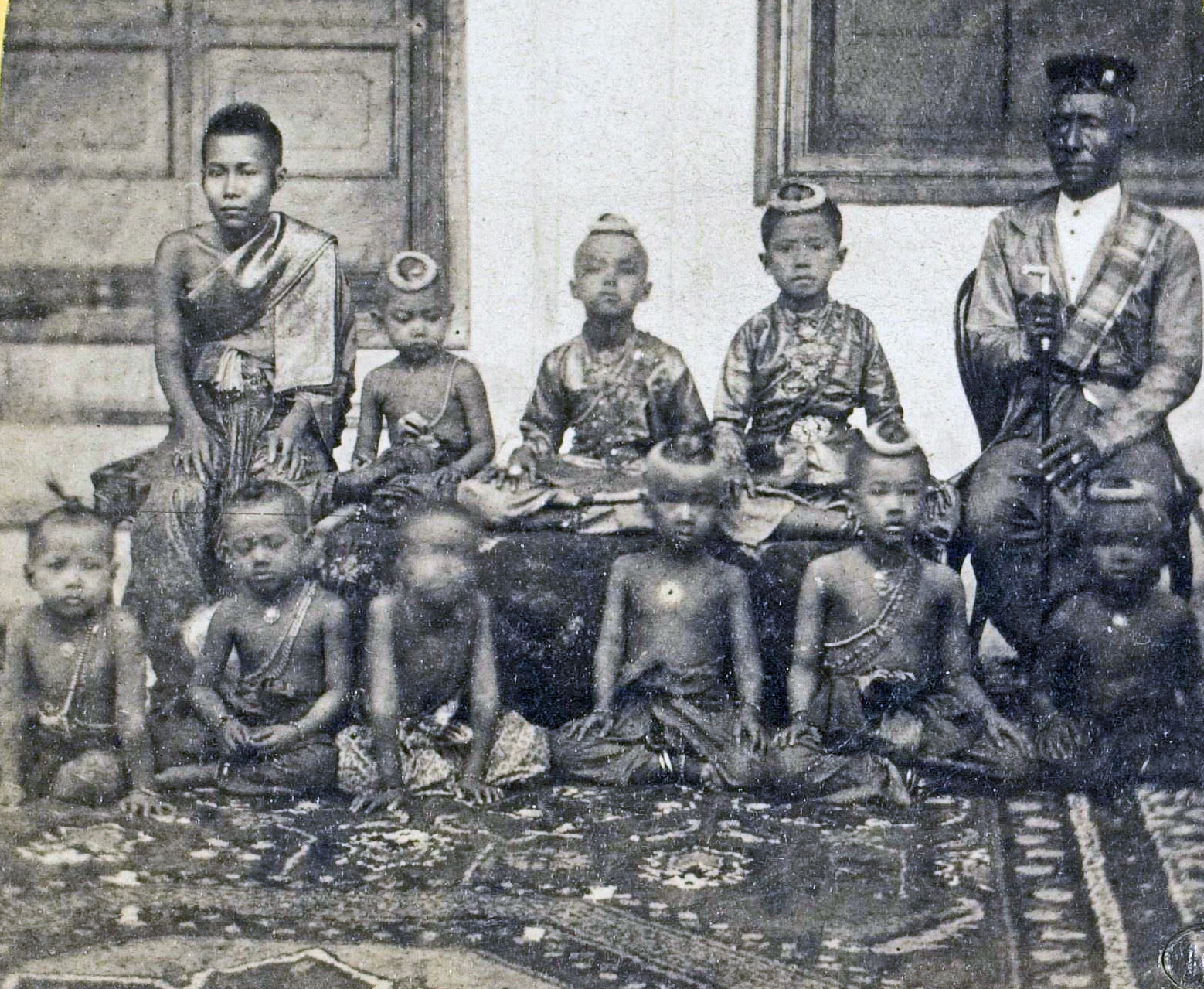 King Mongkut of Siam (far right), with a wife and some of his children. His heir, Chulalongkorn, sits next to him. This site lists the date as 1875, which is wrong as Mongkut died in 1868. Judging by the language, the country of first publication is France. Anyone old enough to travel and take photographs in 1868 was almost certainly dead 75 years later in 1943. It seems overwhelmingly likely that the image is in the public domain by expiry of copyright.